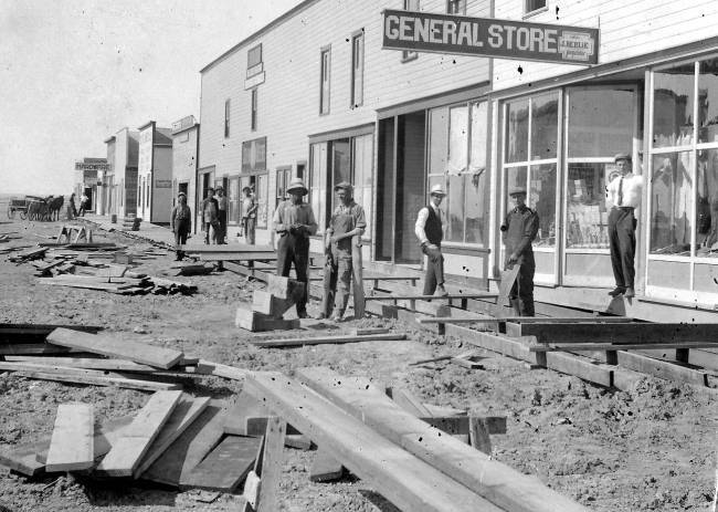 Men builing wooden sidewalks down main street, Robsart, Saskatchewn.